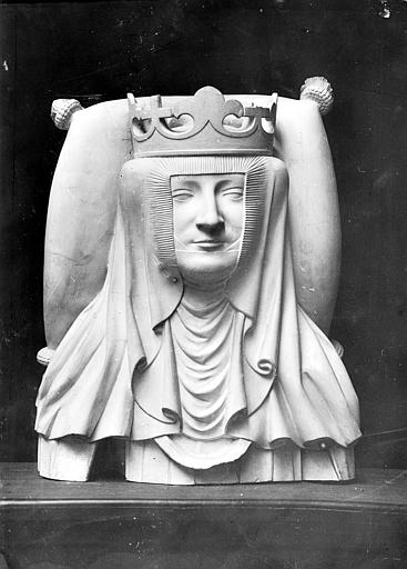 Plaster cast of the funeral statue of Isabeau of Bavaria, queen of France.